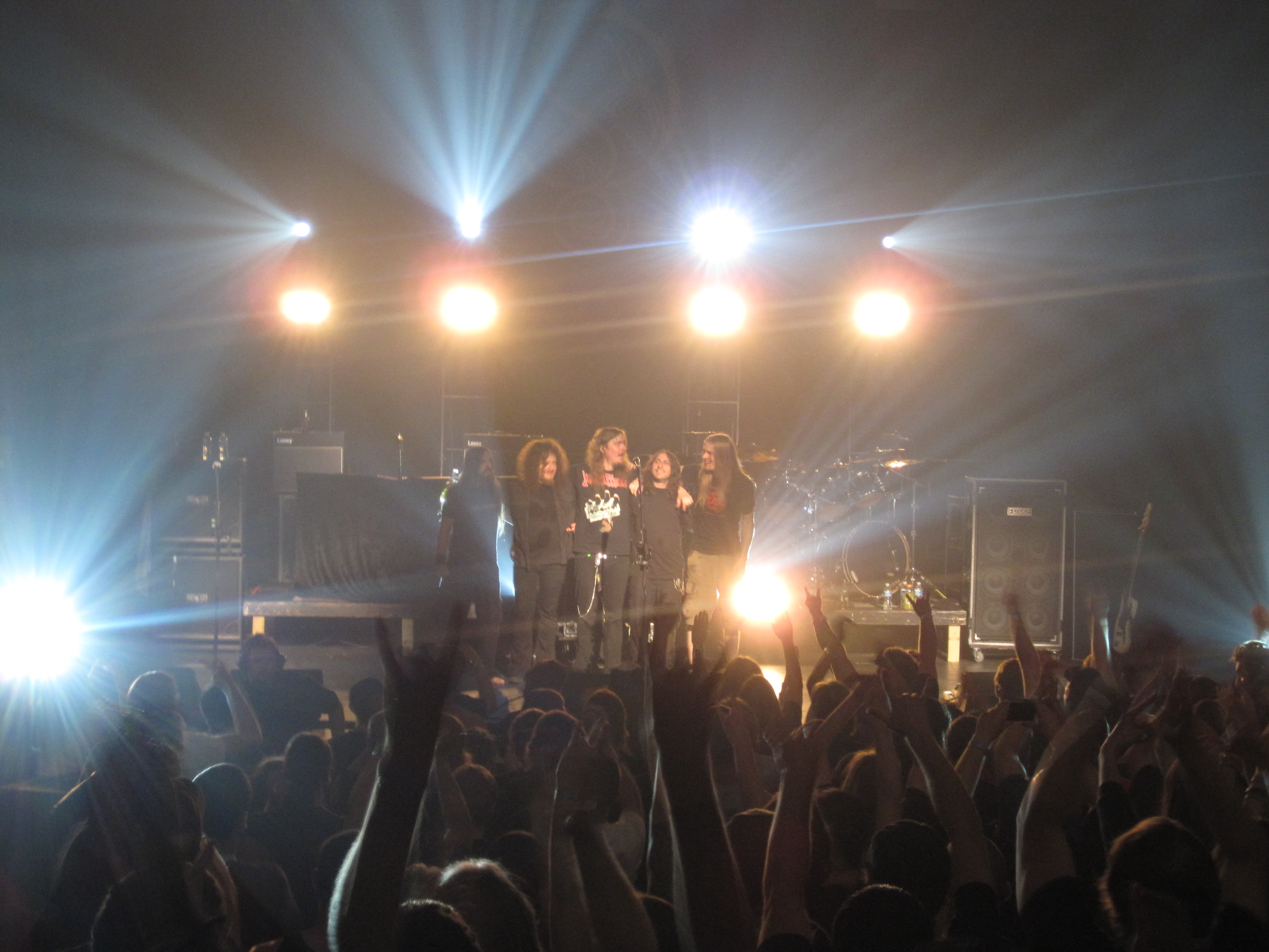 The Swedish progressive metal band Opeth after the show in Knoxville, TN on May 22, 2009